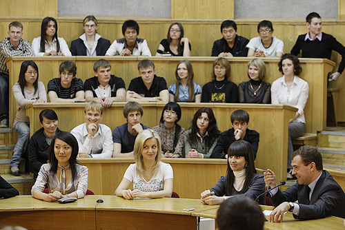 KHABAROVSK. Meeting with Pacific National University students.